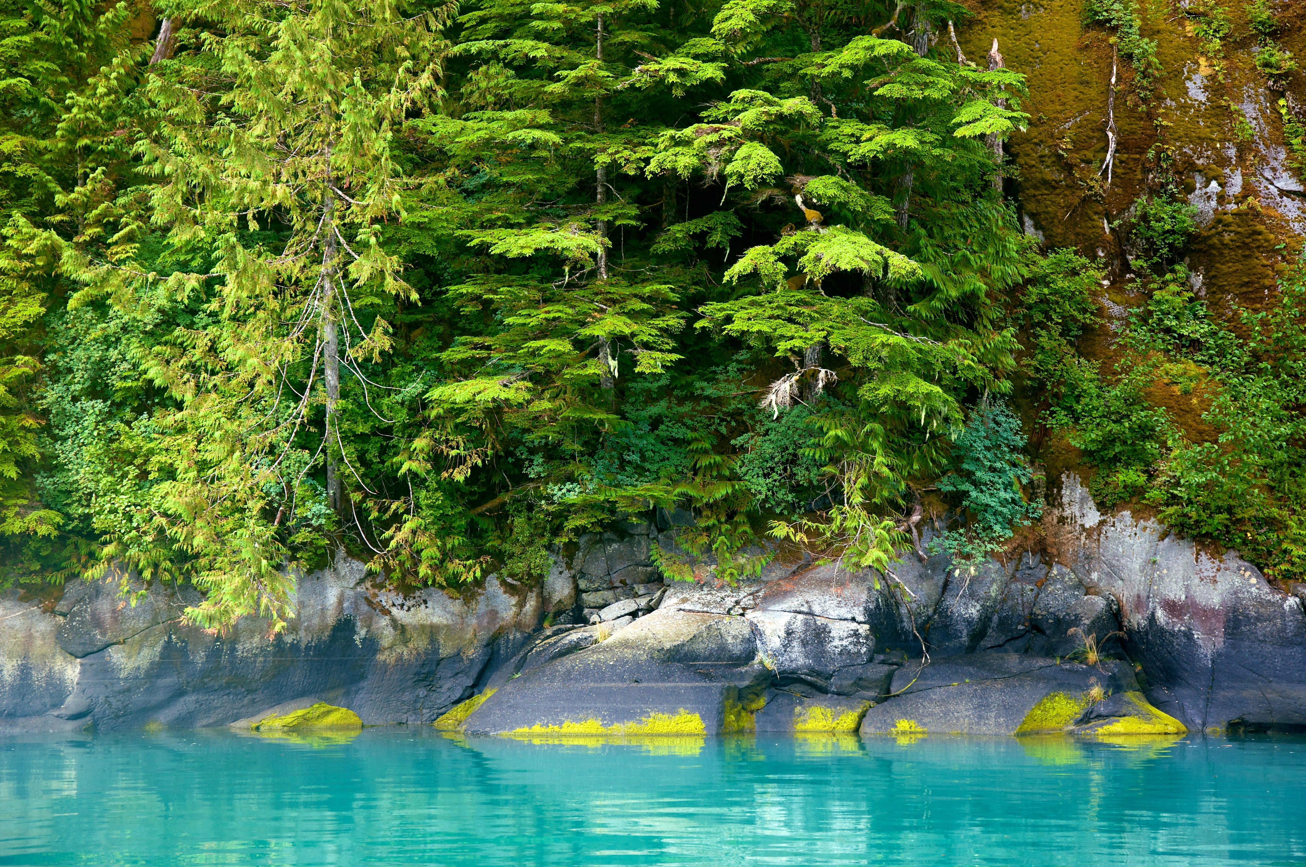 Forest and water in Kitlope Heritage Conservancy, British Columbia, Canada